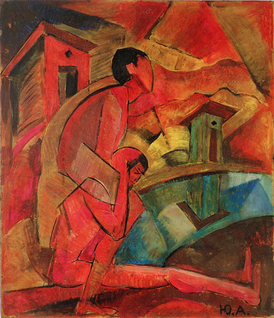 Yuri Annenkov (1889-1974) Bretanian legend. The monk Hristofore with the Christ near river. 1916-17. Oil, wood. 65x54,5 cm. Private collection, Ukraine. Святой Христофор